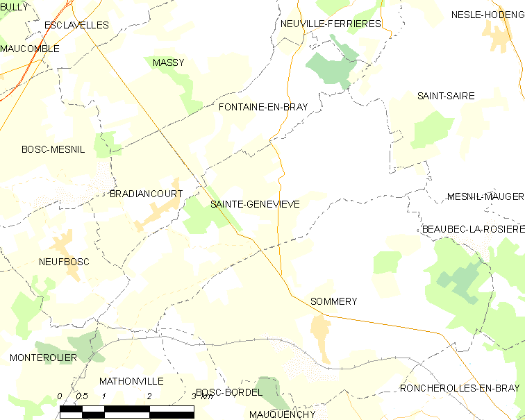 Map of French municipality Sainte-Geneviève